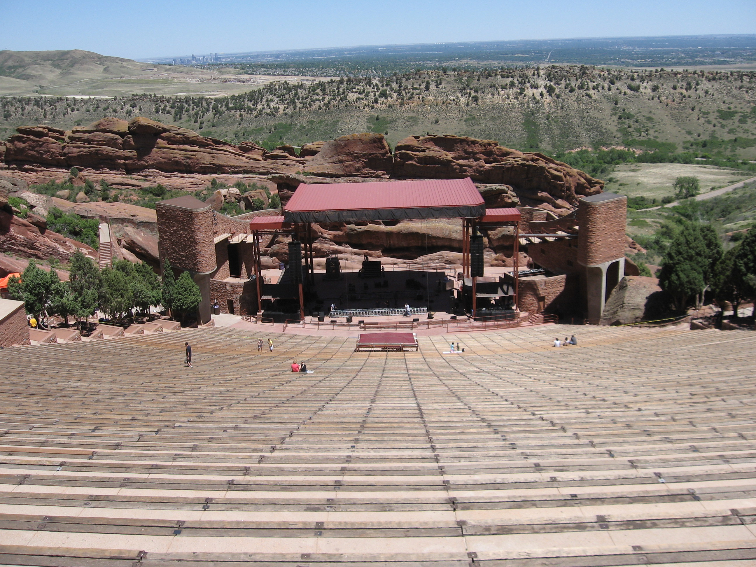 Shoot of the amphitheater at Red Rocks in Colorado